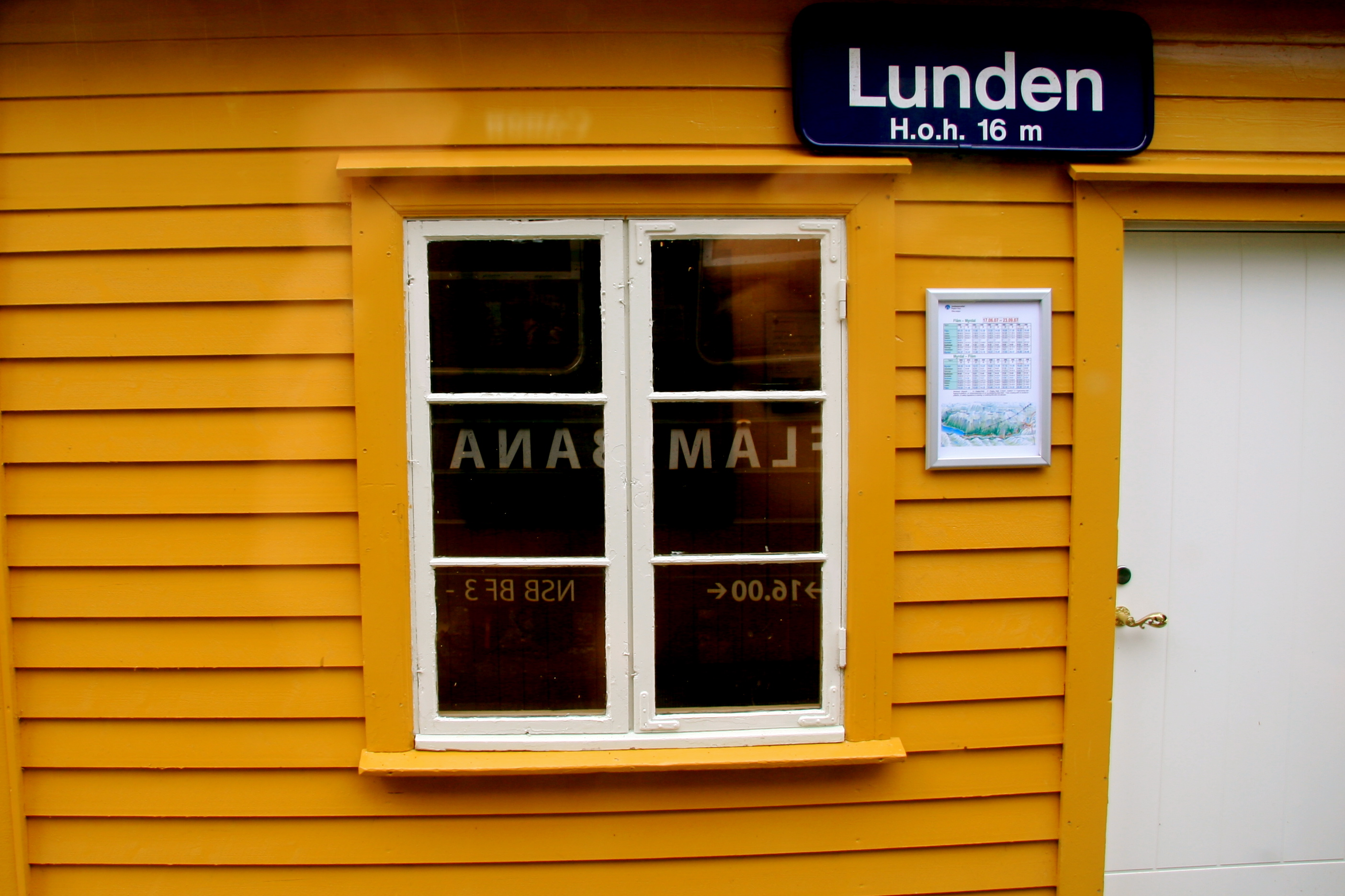 Lunden stasjon on the Flåm Railway from Myrdal to Flåm. One of the many little yellow station buildings you pass on the way.